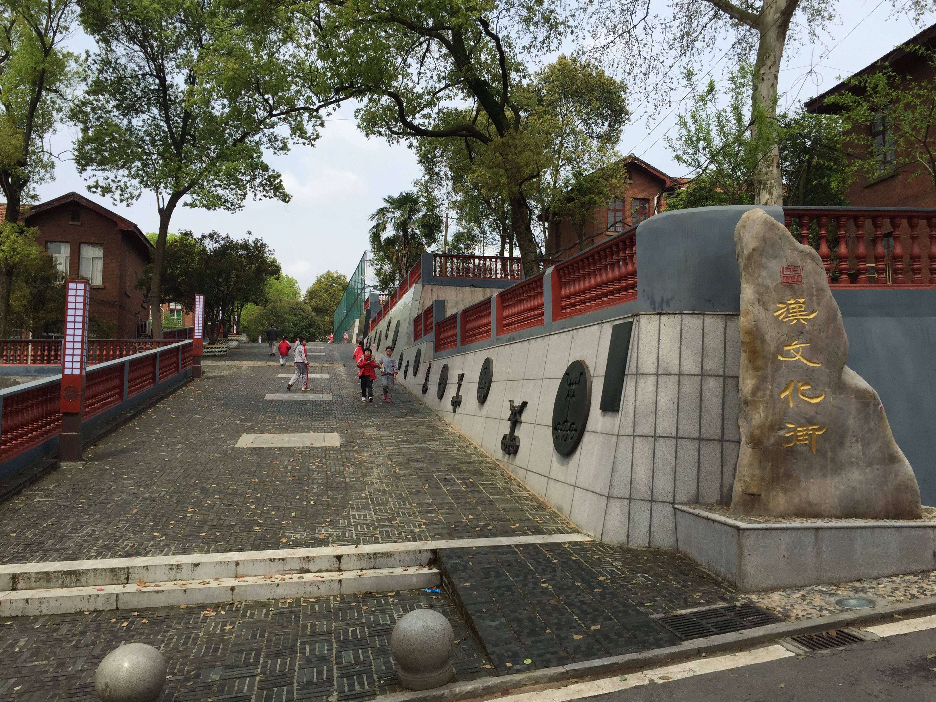 This piece of land has always been a land of abundance and prosperity.